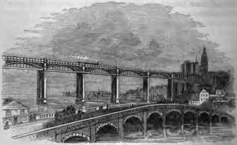 High Level and Low Level bridges - Newcastle - 1861 Measom, 1861